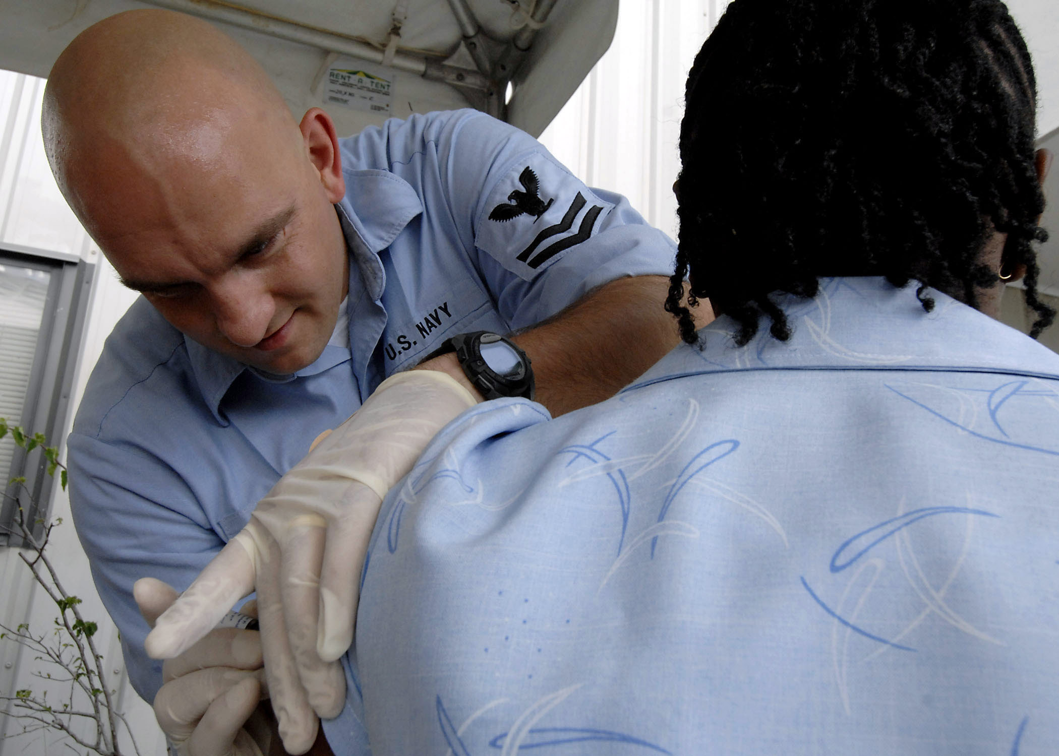 GEORGETOWN, Guyana (Sept. 26, 2007) - Hospital Corpsman 2nd Class Chad Galvin, a respiratory therapy technician attached to Military Sealift Command hospital ship USNS Comfort (T-AH 20), gives an immunization shot to a patient at the Project Dawn at Liliendaal care site. Comfort is on a four-month humanitarian deployment to Latin America and the Caribbean providing medical treatment to patients in a dozen countries. U.S. Navy photo by Mass Communication Specialist 2nd Class Joan E. Kretschmer (RELEASED)